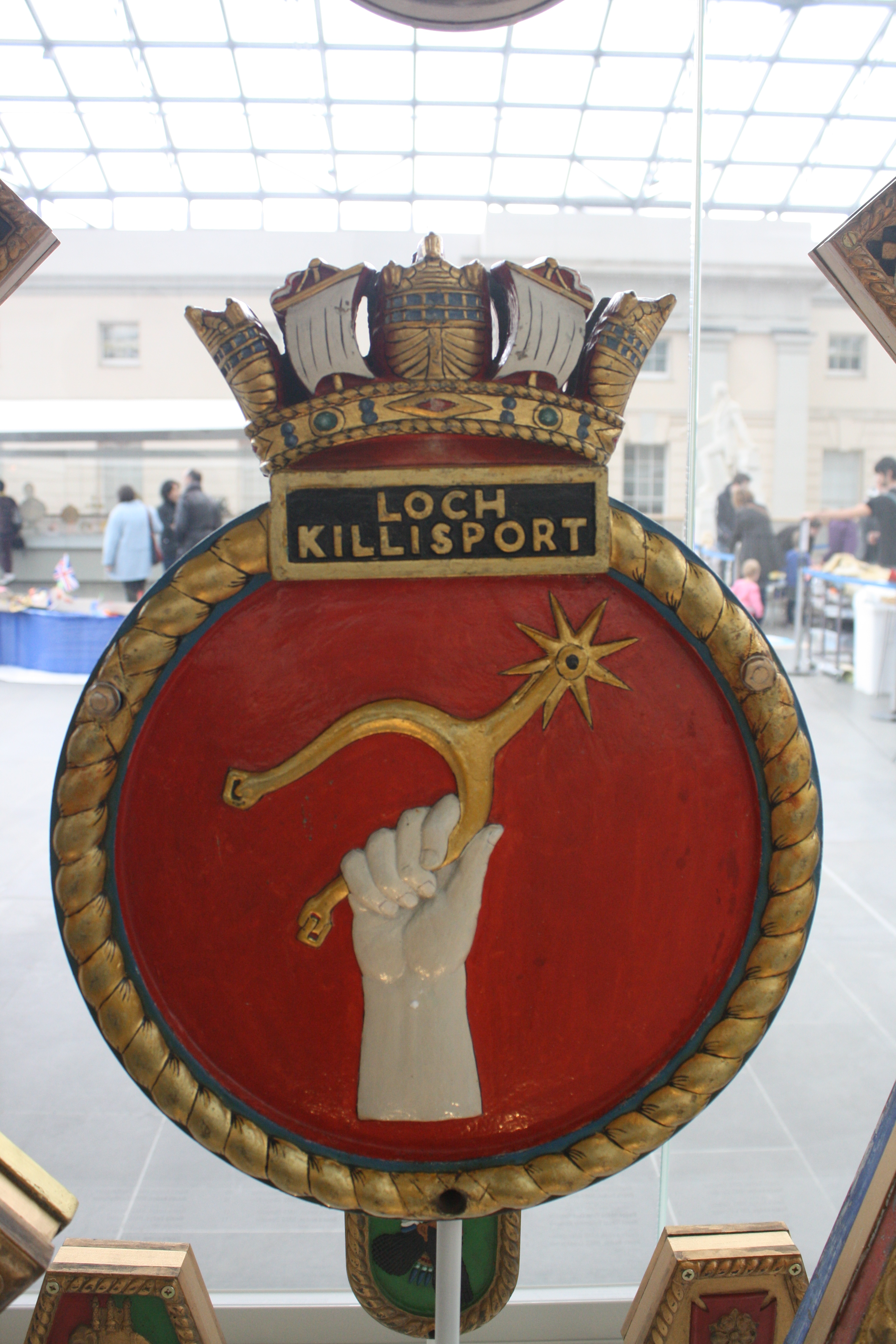 Ship heraldry at the NMM